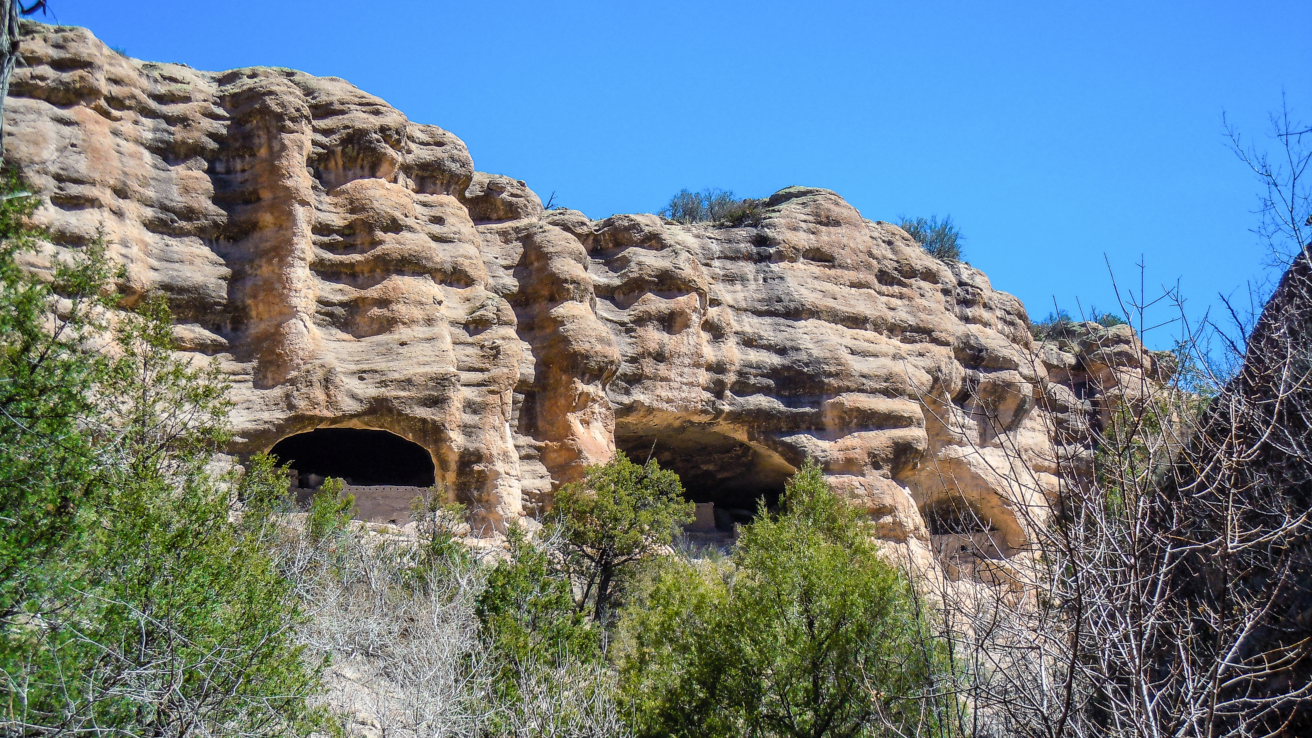 cave dwellings built in cliff alcoves by the Mogollon peoples between 1275 and 1300 AD